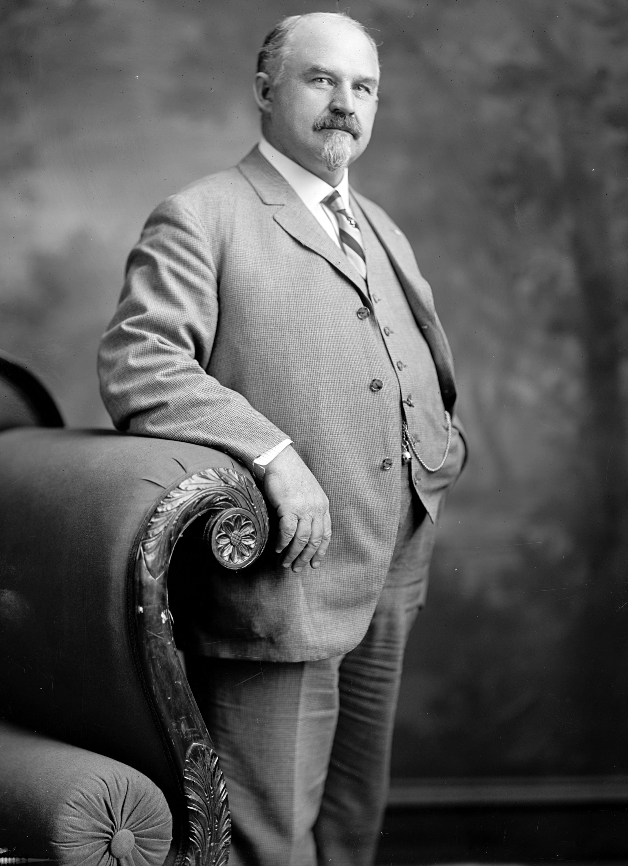 Aaron Shenk Kreider, US Representative from Pennsylvania